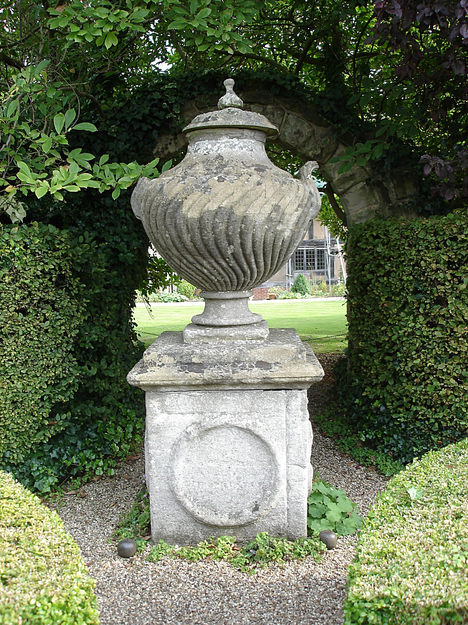 Egyptian Urn, Lord Leycester Hospital Garden, Warwick